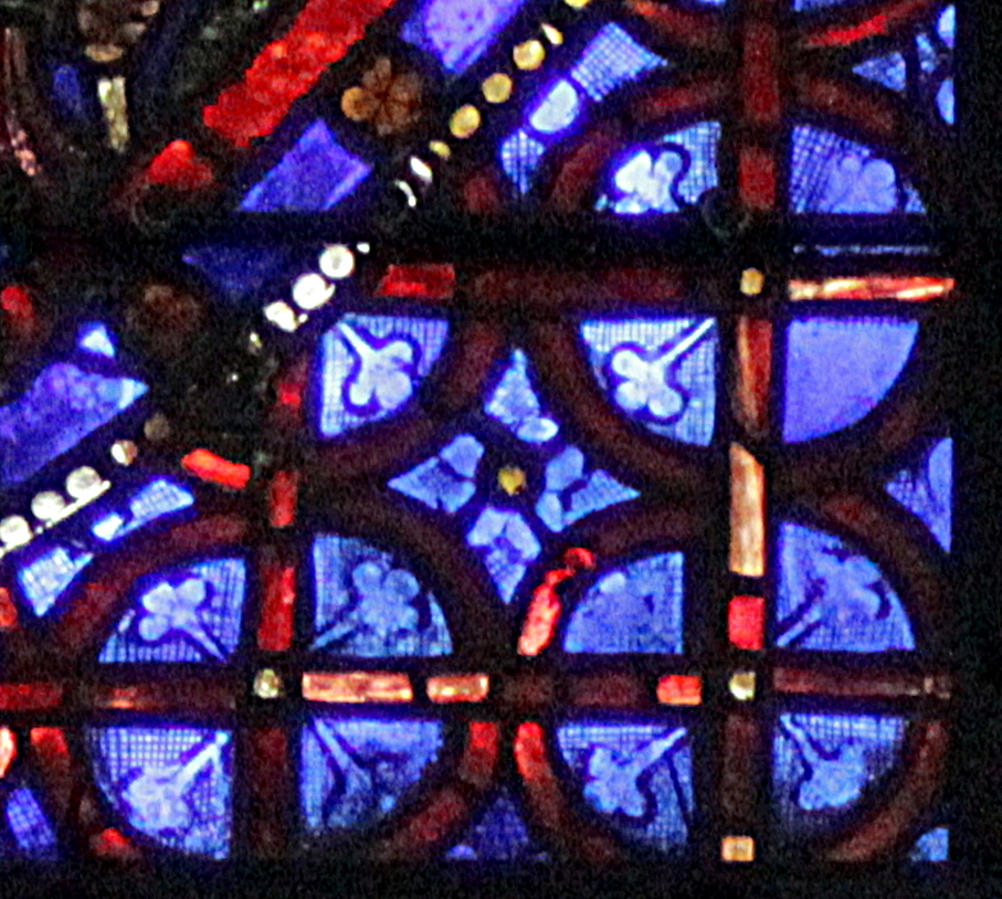 Bay 18 of Chartres cathedral : Life of saint Thomas Becket.